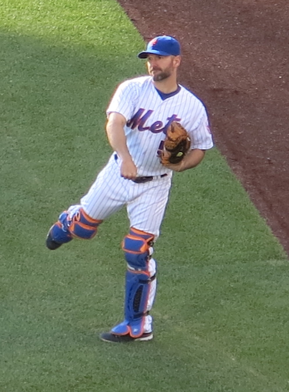 Dave Racaniello of the New York Mets, June 17, 2016.